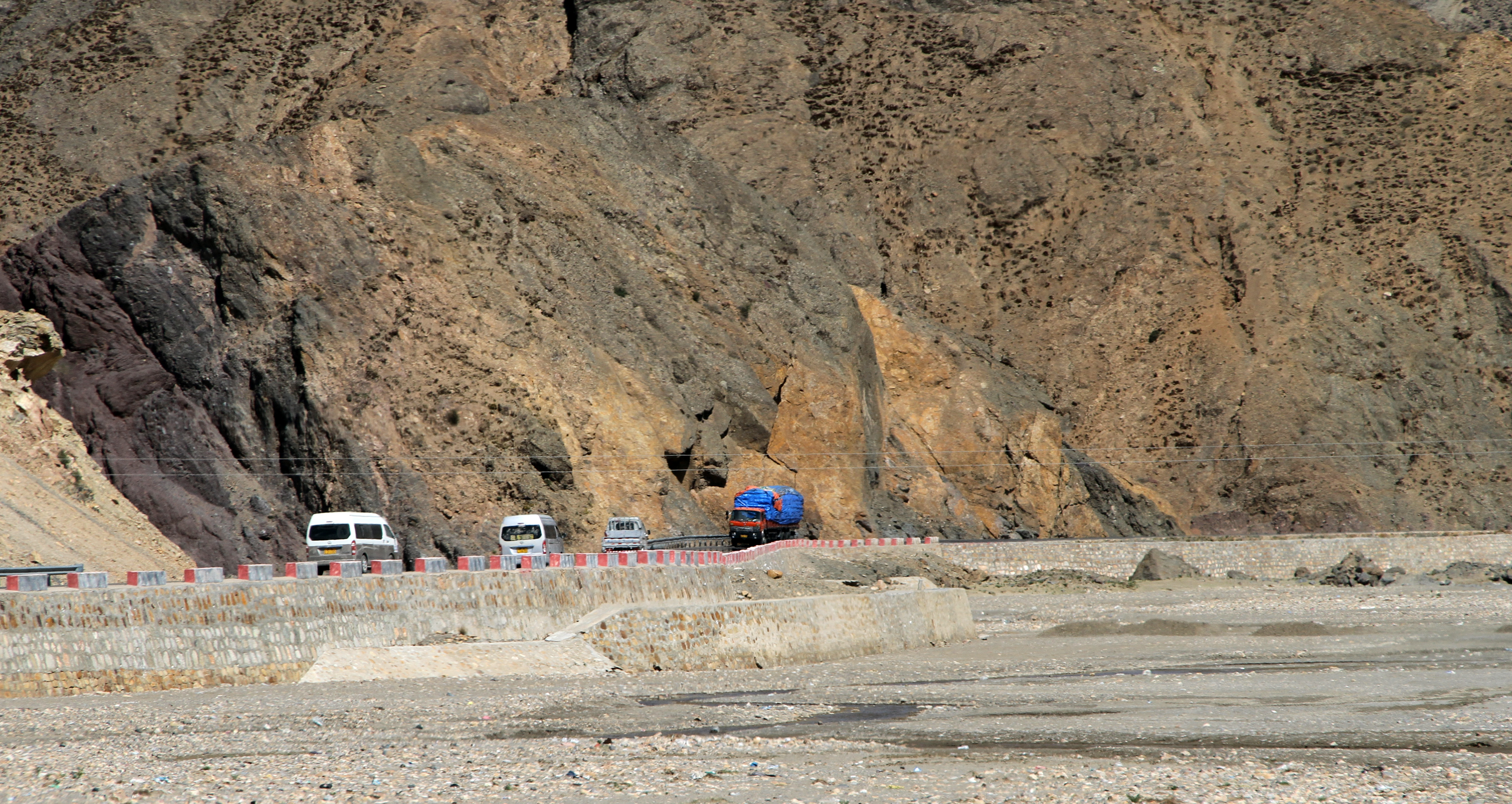 Friendship Highway from Sakya to Shigatse in Tibet